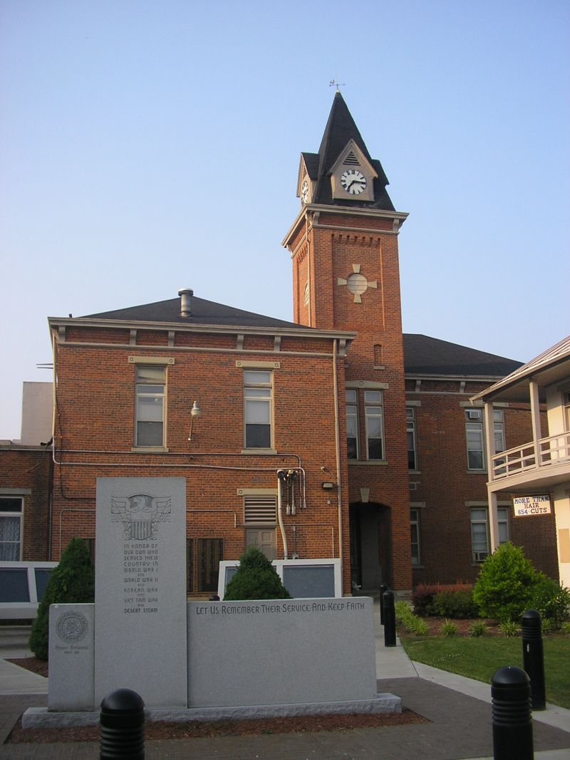 Pendleton County Courthouse along Main Street (KY 22) in Falmouth, Kentucky; part of the Central Falmouth Historic District.